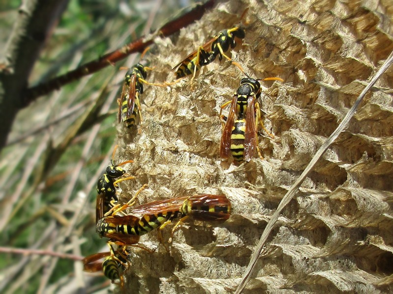 Polistes gallicus (Vespidae) - (imago), Río Guadaiza, Spain